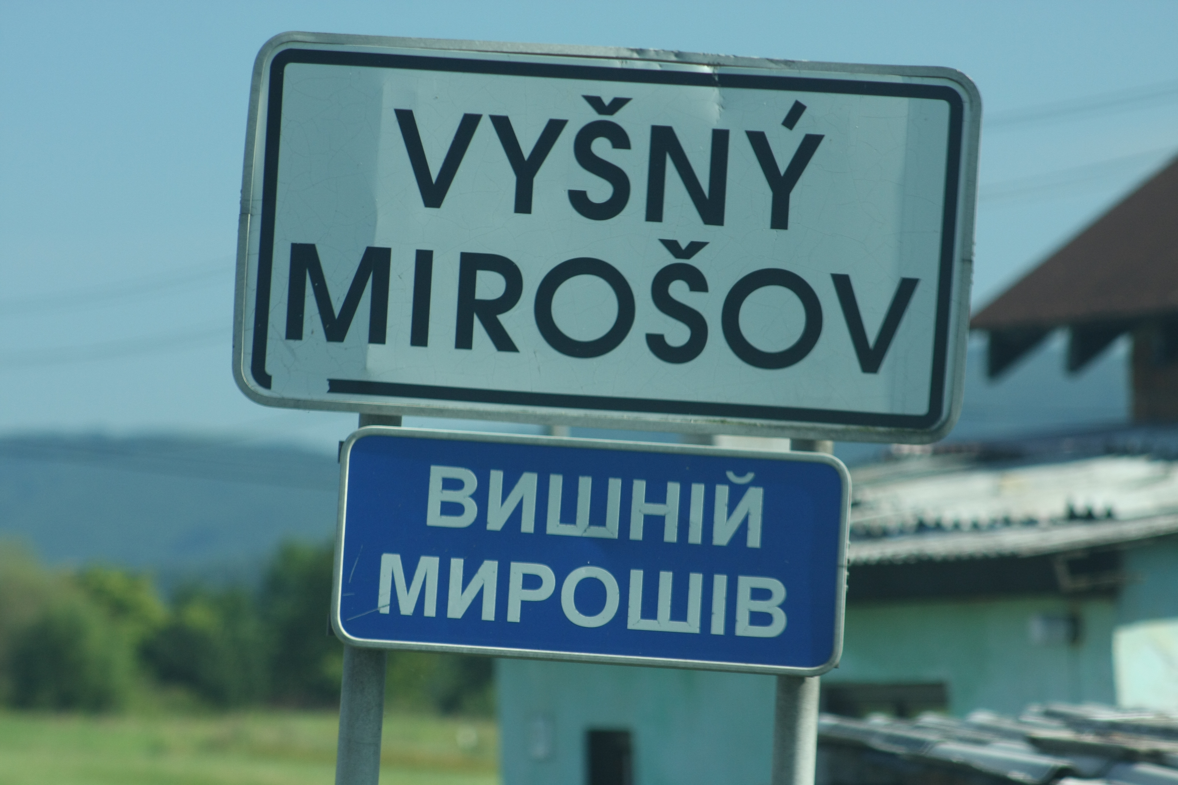 Bilingual Slovakian-Rusyn road sign in village Vyšný Mirošov